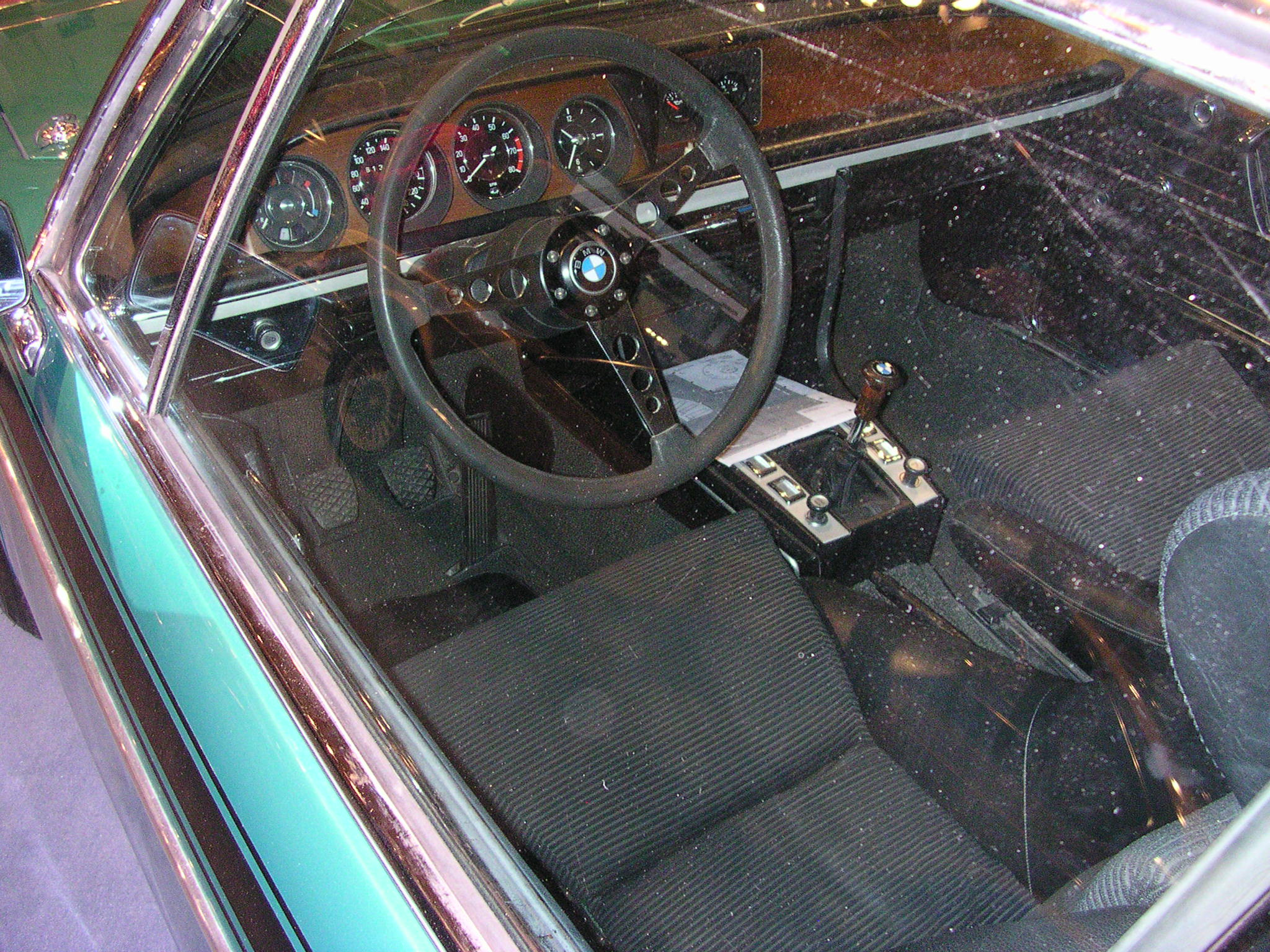 Essen Techno-Classica 2007, BMW 3.0 CSi